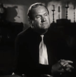 Barry Kelley in The Capture - cropped screenshot